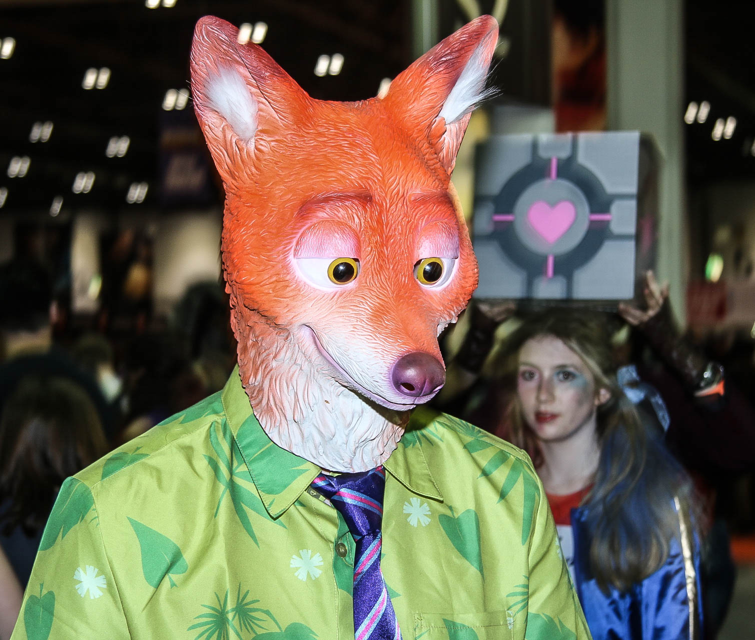 Cosplay at MCM London Comic Con in May 2016.